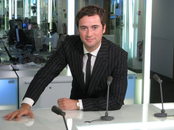 A photo of Thomas Adamson, before presenting the news on newschannel France 24. Location - Issy-les-moulineaux, outside Paris.